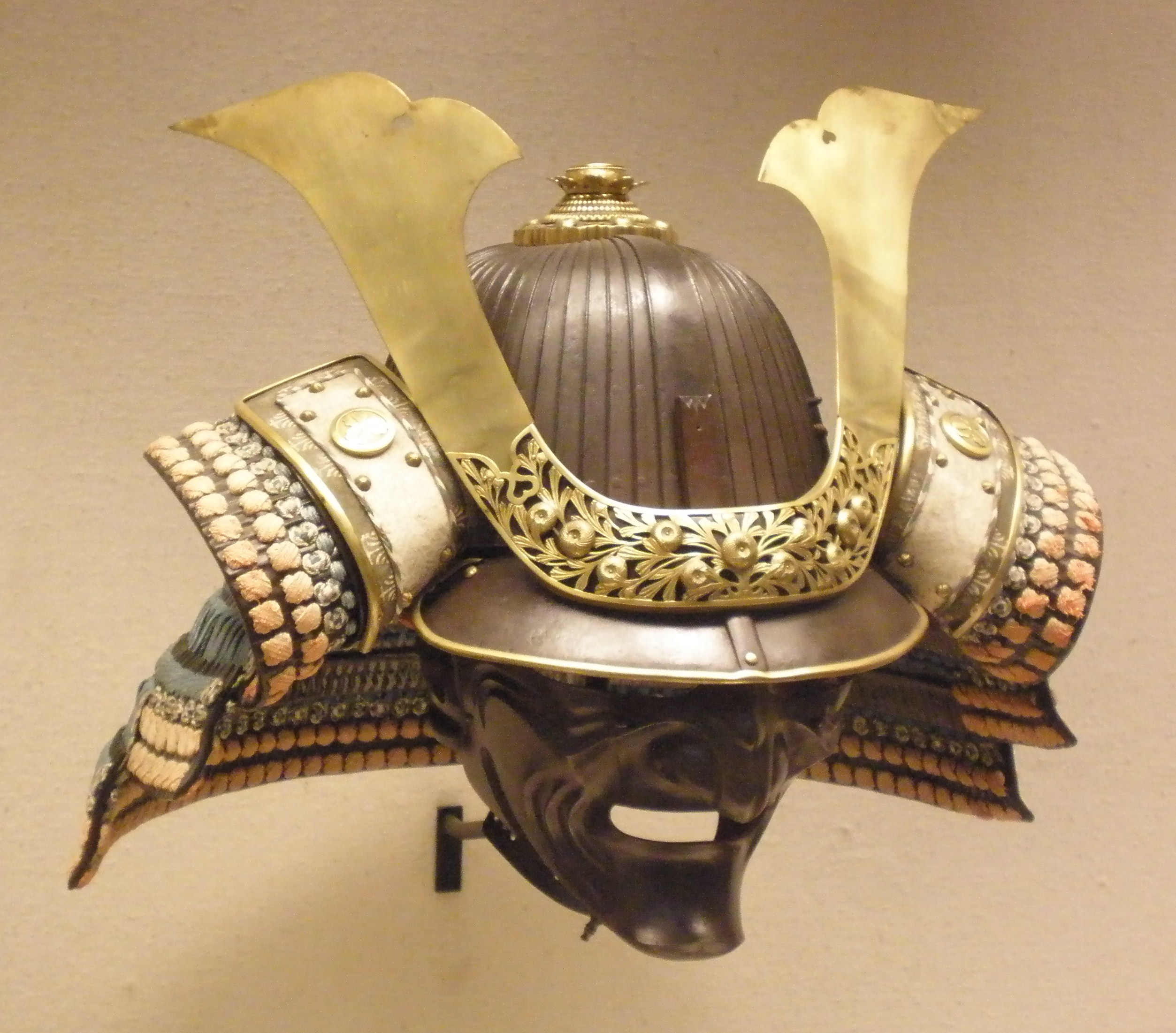 Half-mask Iron About 1700-1850 Museum no. M1432-1926 Hildburgh Gift Fantastic photo. It's a shame we don't know anything about the armorsmith or the samurai who owned it; otherwise, it'd make a fantastic addition to a biographical Wiki article. Wikipedia Loves Art at the Victoria and Albert Museum This photo of item # [1] at the Victoria and Albert Museum was contributed under the team name "va_va_val" as part of the Wikipedia Loves Art project in February 2009. Victoria and Albert Museum The original photograph on Flickr was taken by Val_McG—please add a comment to the original Flickr page whenever a use has been made on Wikipedia or another project. Project galleries on Flickr: this institution, this team